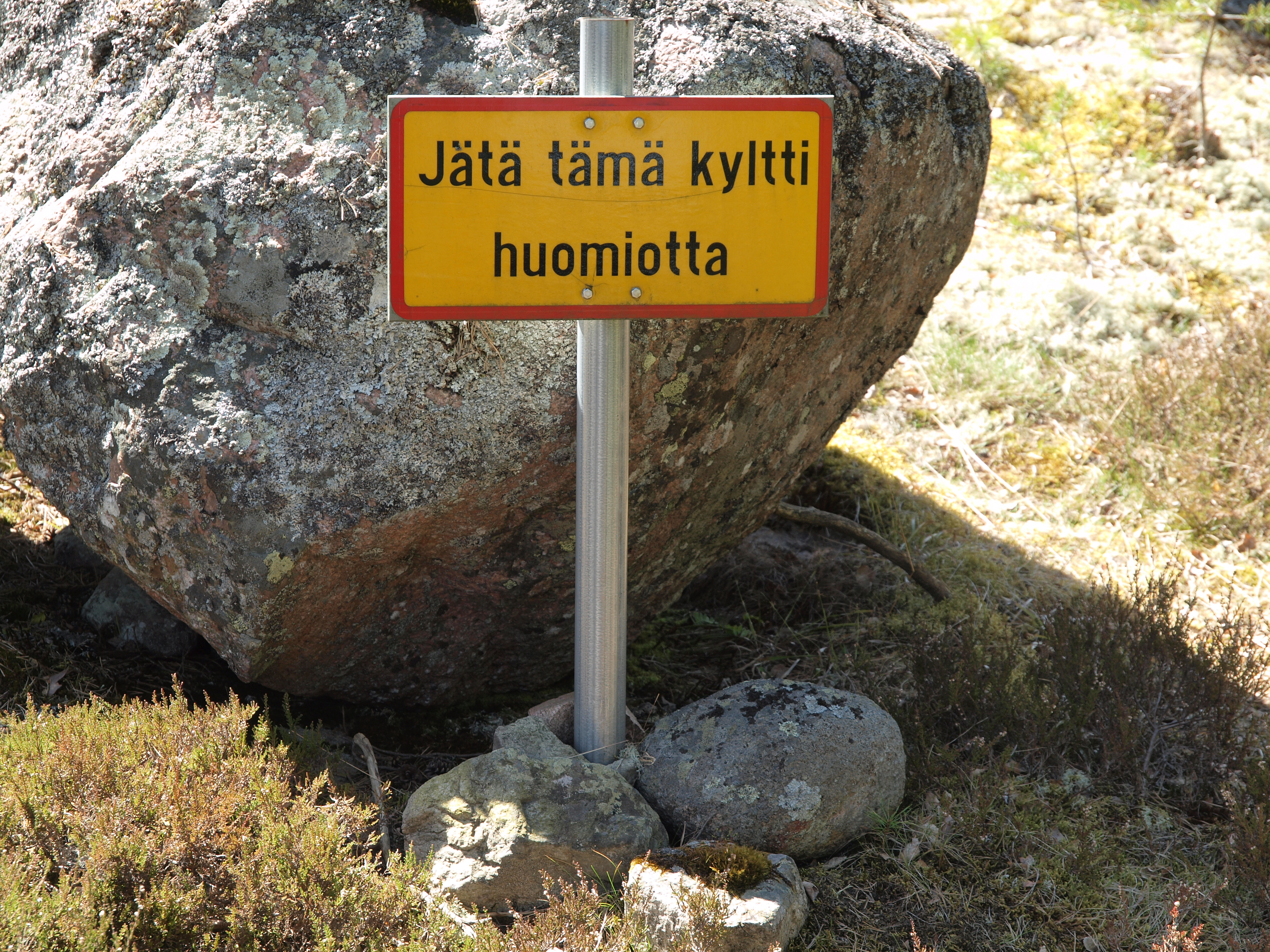 A sign in Porkkala, Kirkkonummi, Uusimaa, Finland, saying "Jätä tämä kyltti huomiotta", meaning "Ignore this sign" in Finnish.